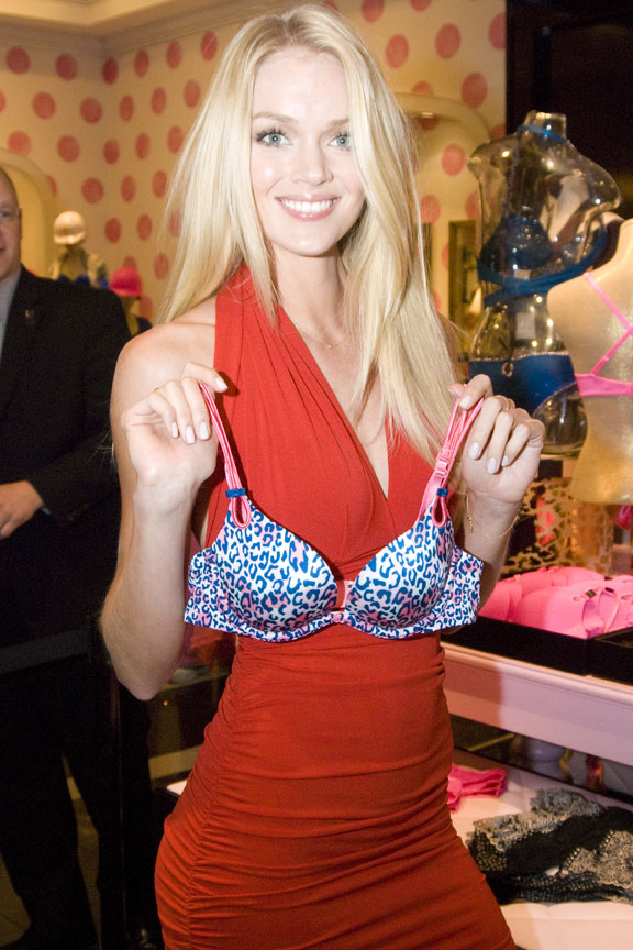 Lindsay Ellingson Launches "Gorgeous" Bra at Victoria's Secret Flagship Store on Michigan Avenue on March 29, 2011